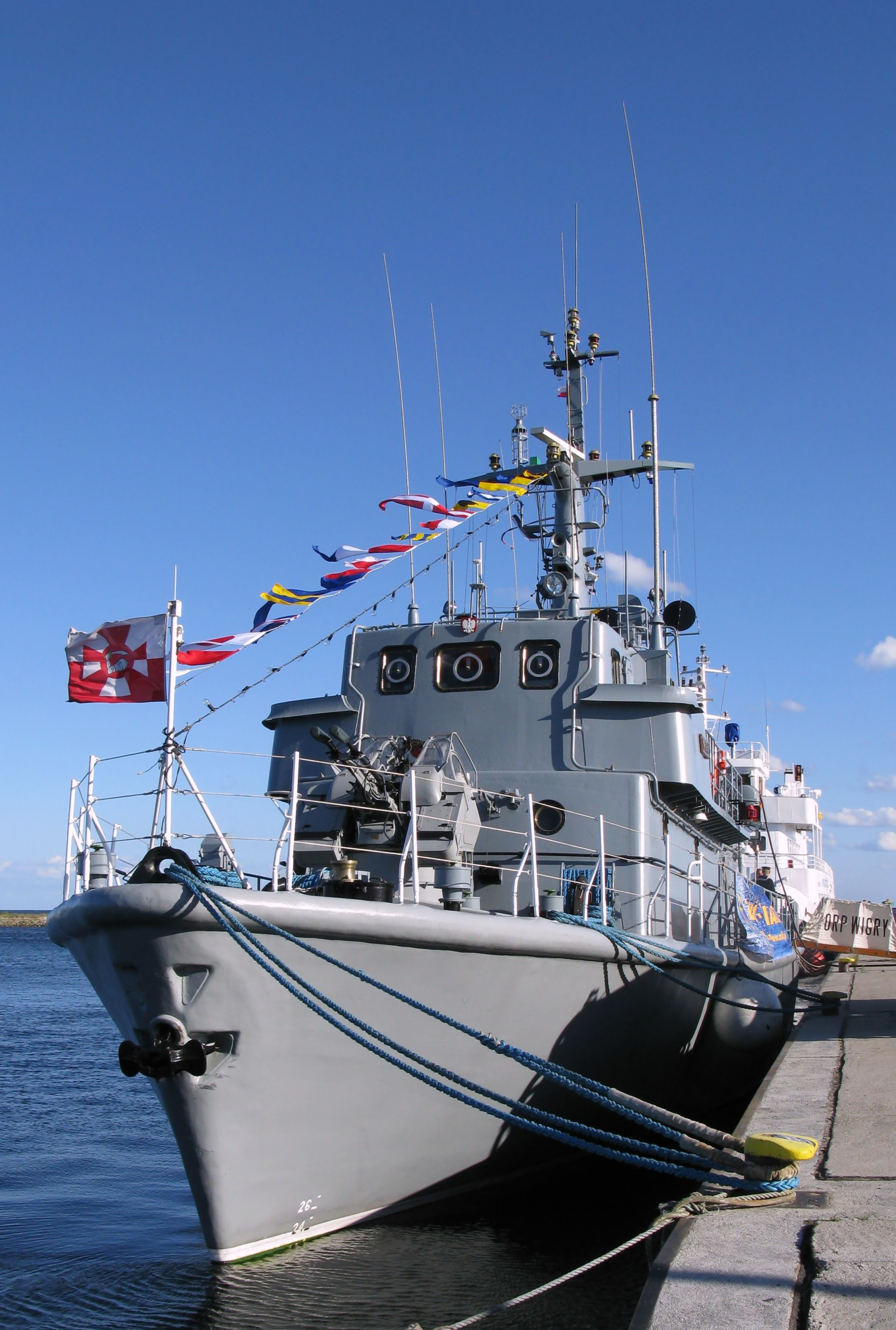 ORP Wigry in Jastarnia